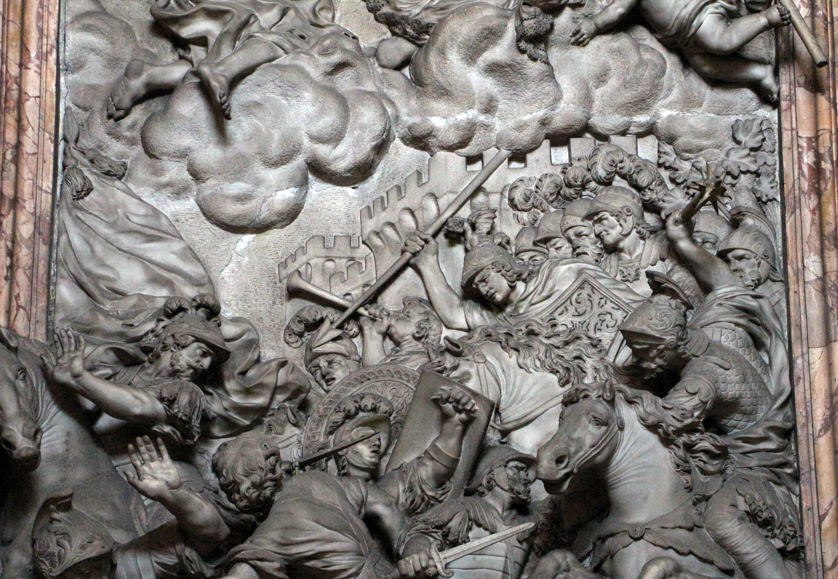 Reliefs by Giovanni Battista Foggini in the Cappella Corsini